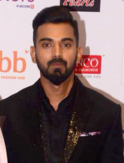 KL Rahul at Femina Miss India 2018 Grand Finale